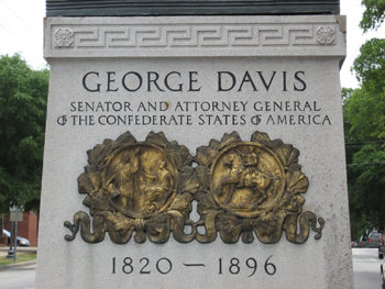 Base of George Davis Monument, NC